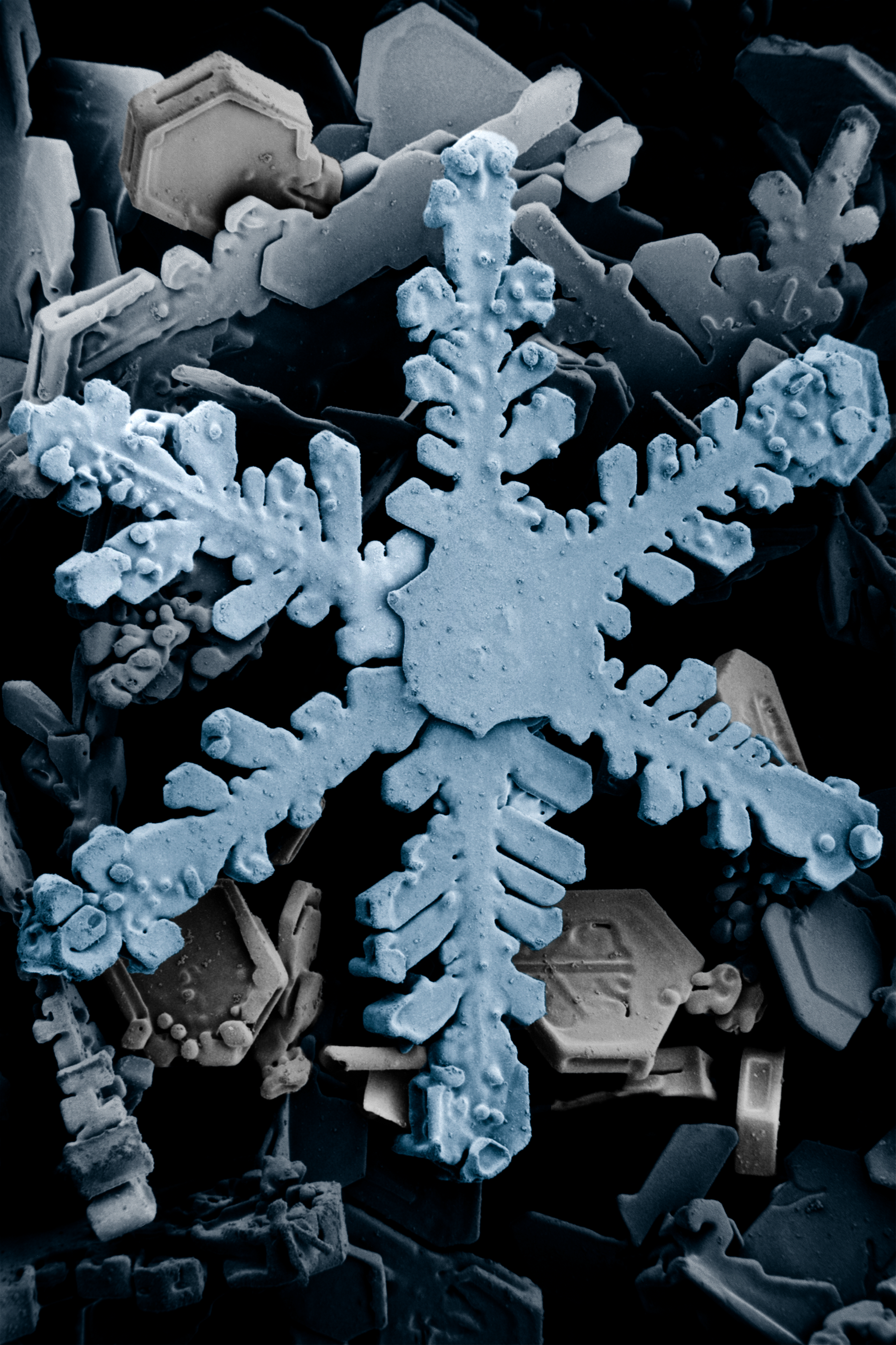 Ordinary hexagonal dendrite snowflake, highly magnified by a low-temperature scanning electron microscope. This version has been artificially colorized to emphasize the central flake.